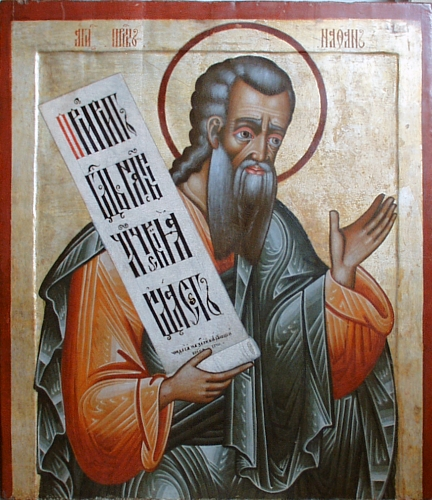 Prophet Nathan, Russian icon from first quarter of 18th cen.